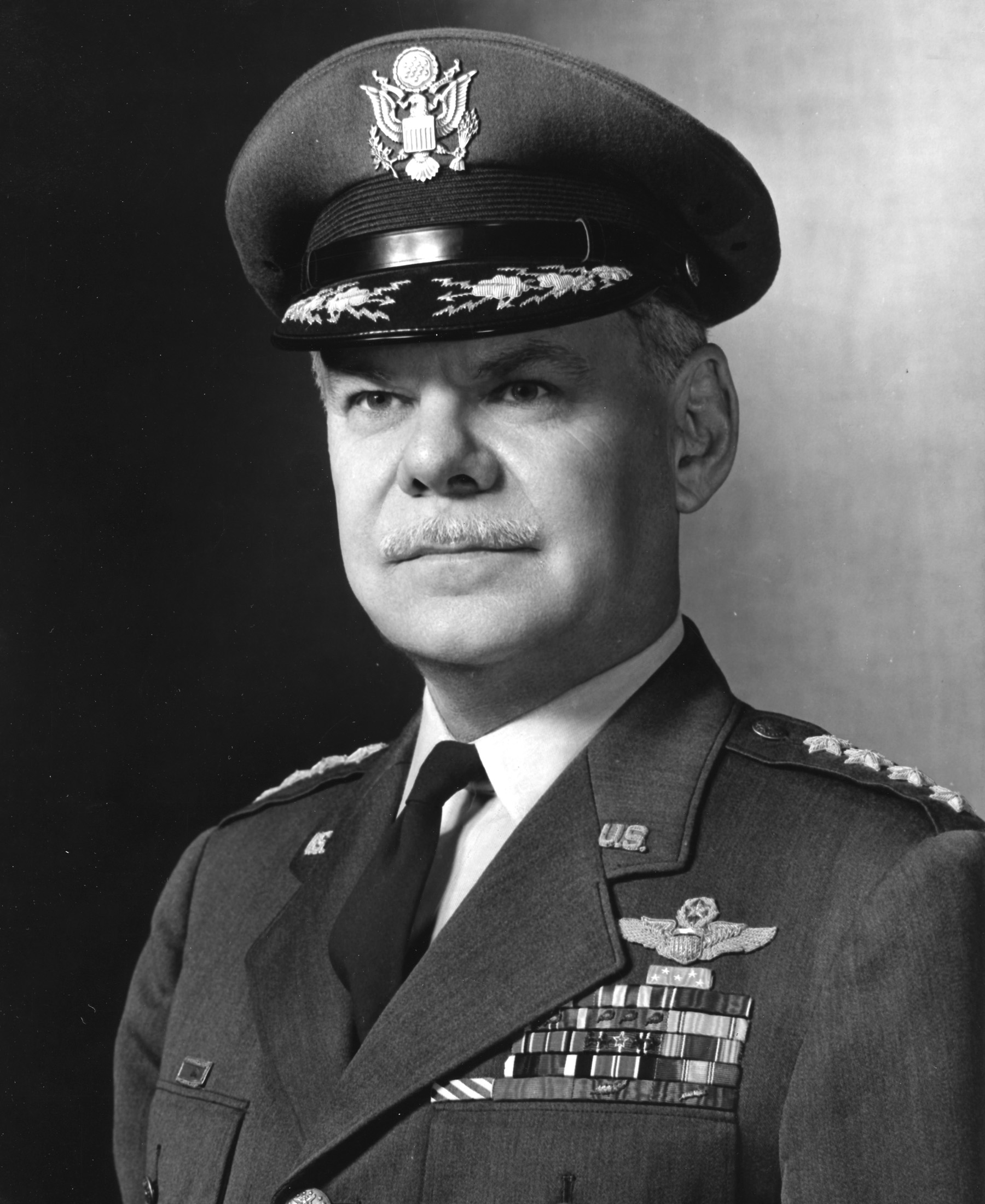 General Leon W. Johnson from [1]